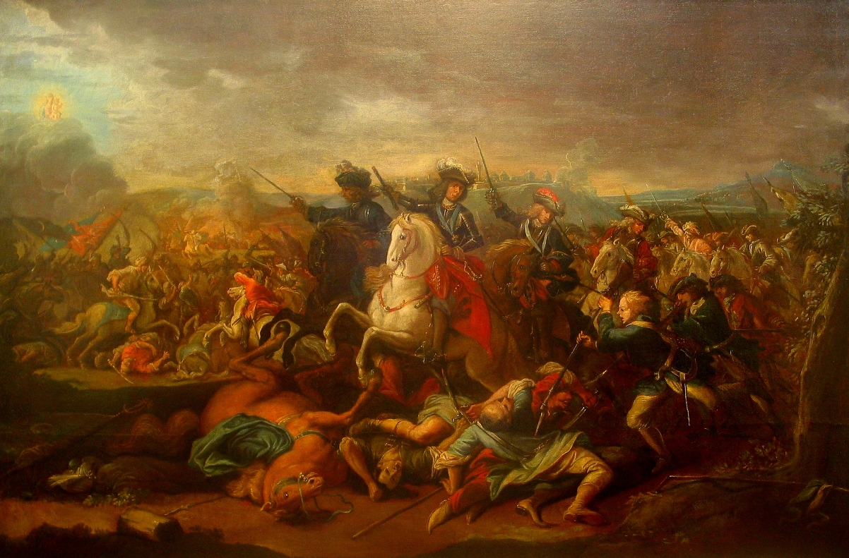 Prince Eugene in the Battle of Belgrade 1717 by a contamporary painter (ca. 1720). Oil on canvas, Heeresgeschichtliches Museum, Vienna, Austria.